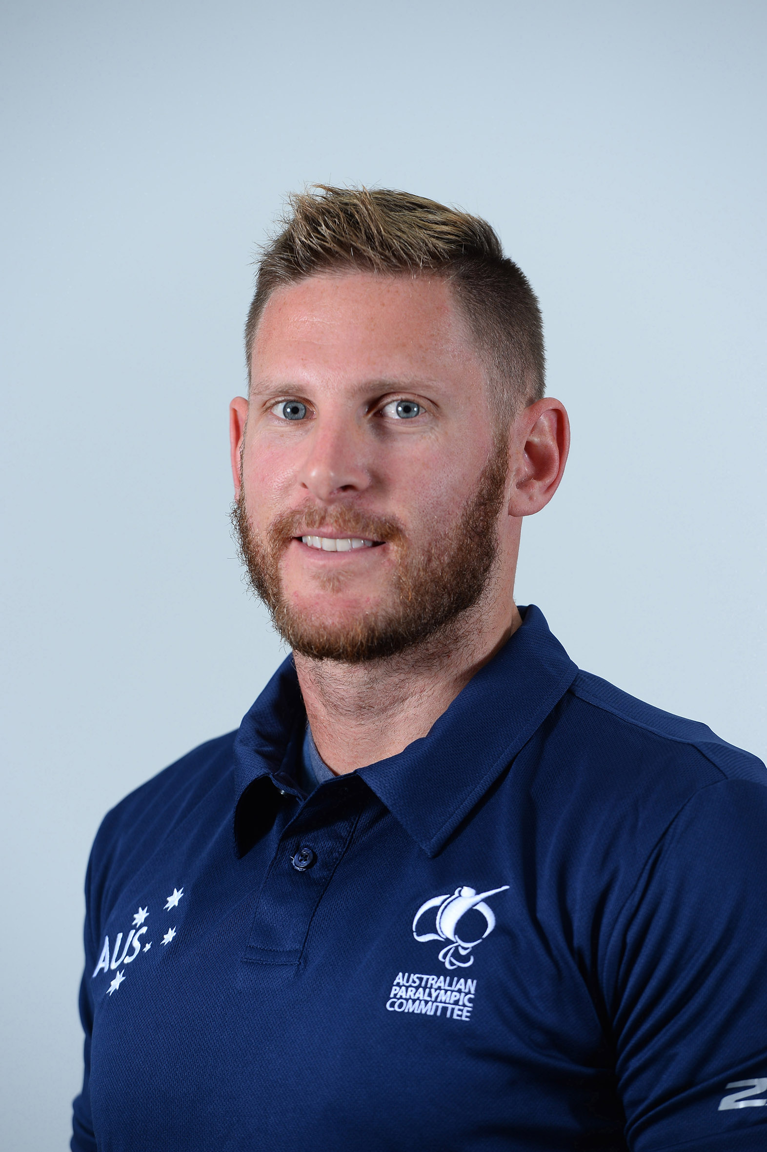 Portrait photograph of Benjamin Weekes taken at team processing session for shadow members of 2016 Australian Paralympic team